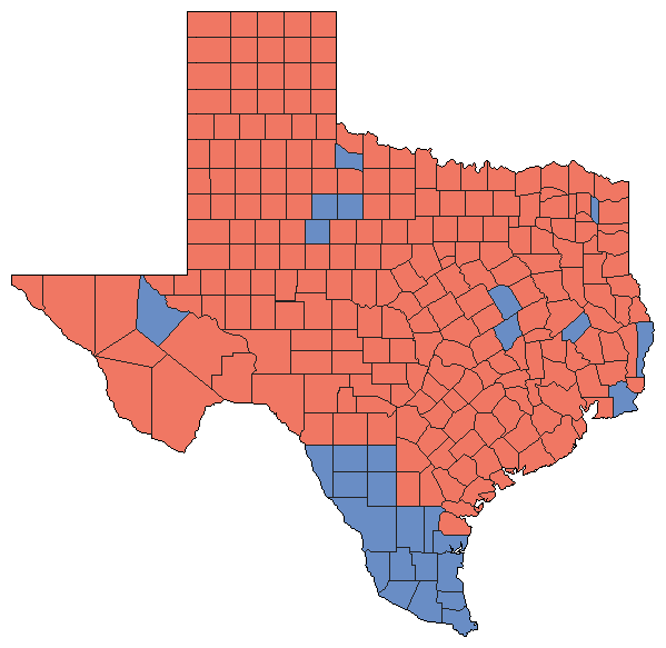 1994 Texas Senate election results by county.